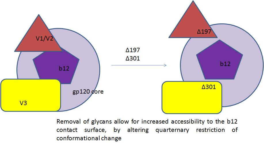 Mutation outside b12 epitope affects binding of b12 to monomeric gp120